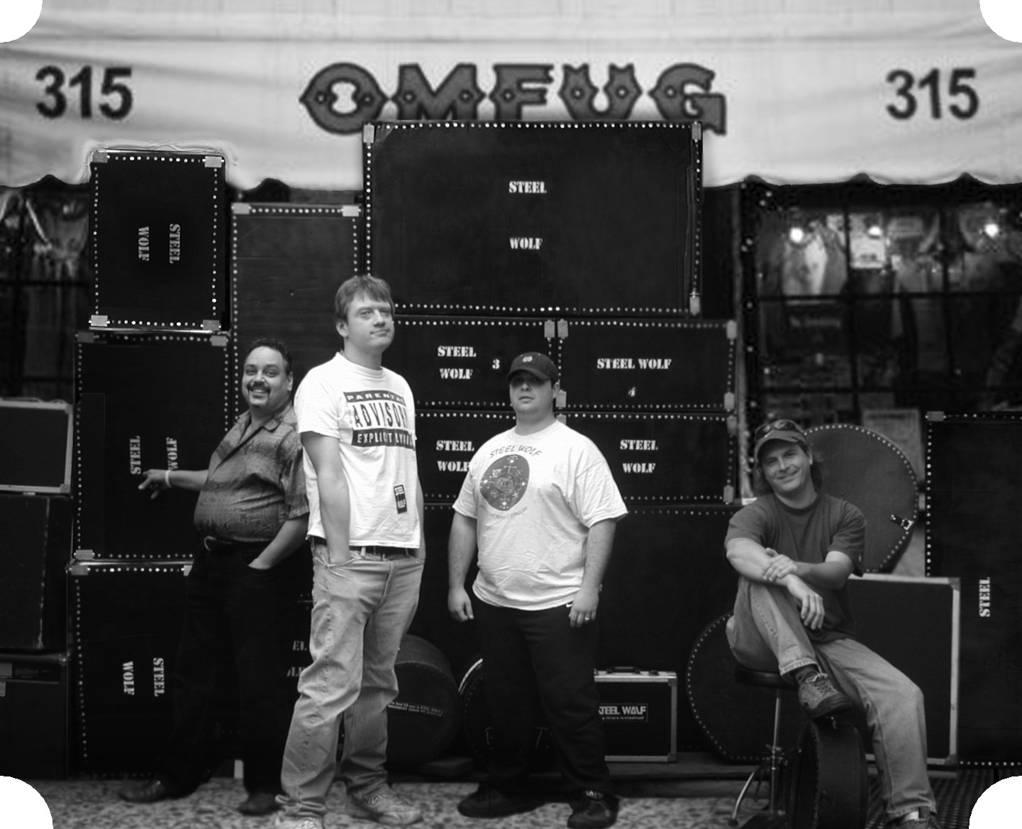 Lithuanian-American heavy rock band Steel Wolf stand before CBGB with road cases.